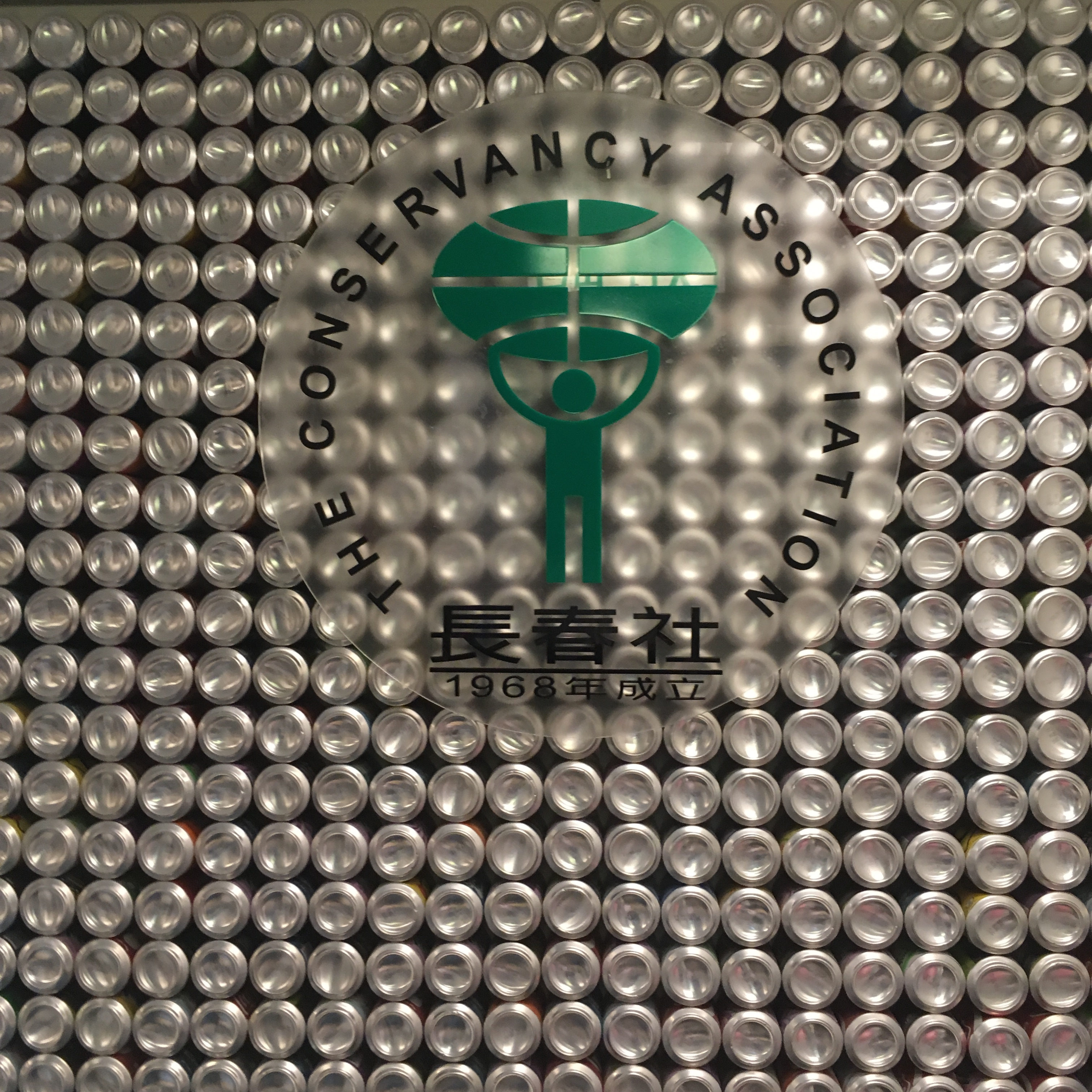 Conservancy Association's symbol